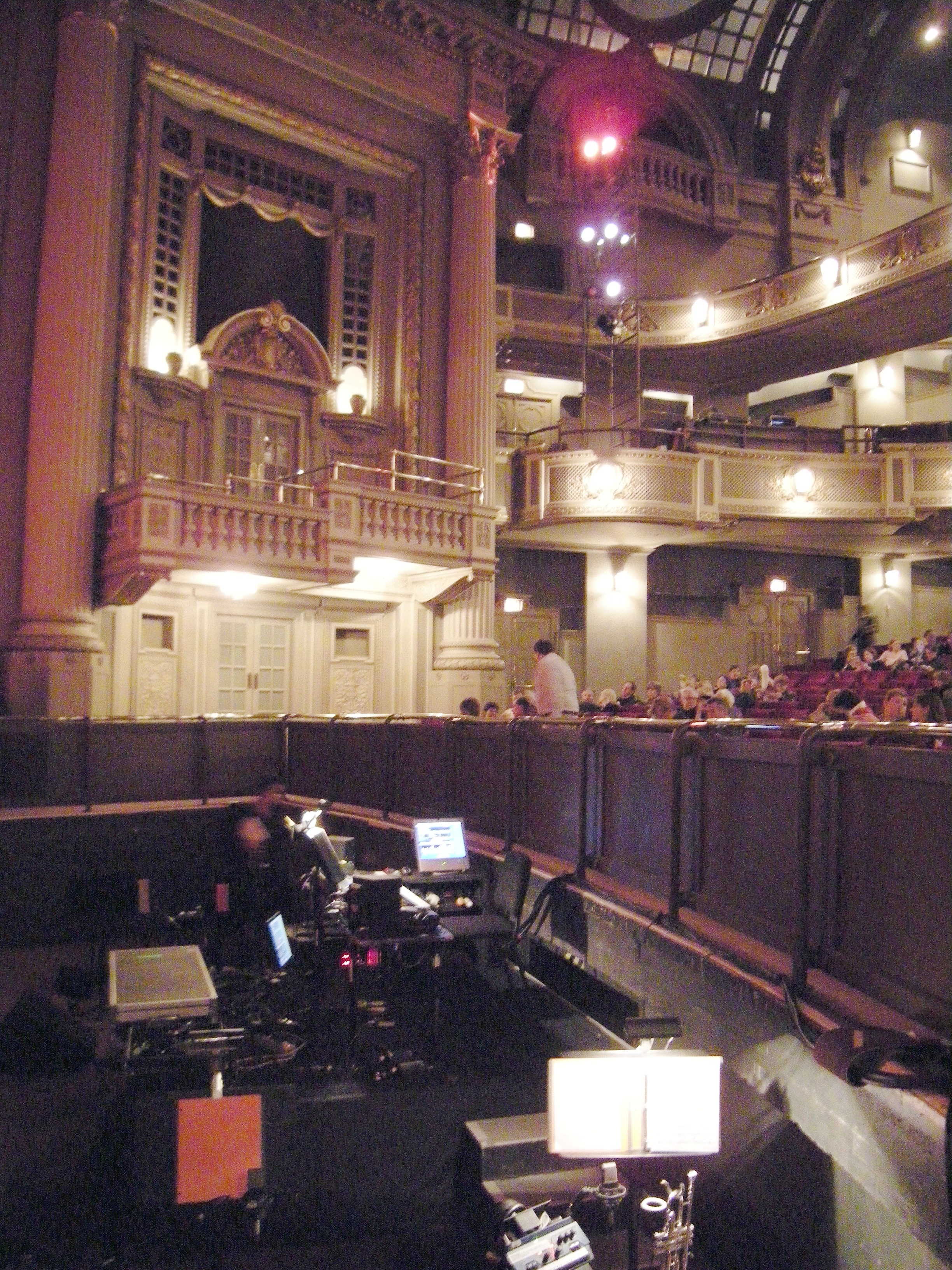 Orchestra pit, Majestic Theatre, Dallas, Texas.